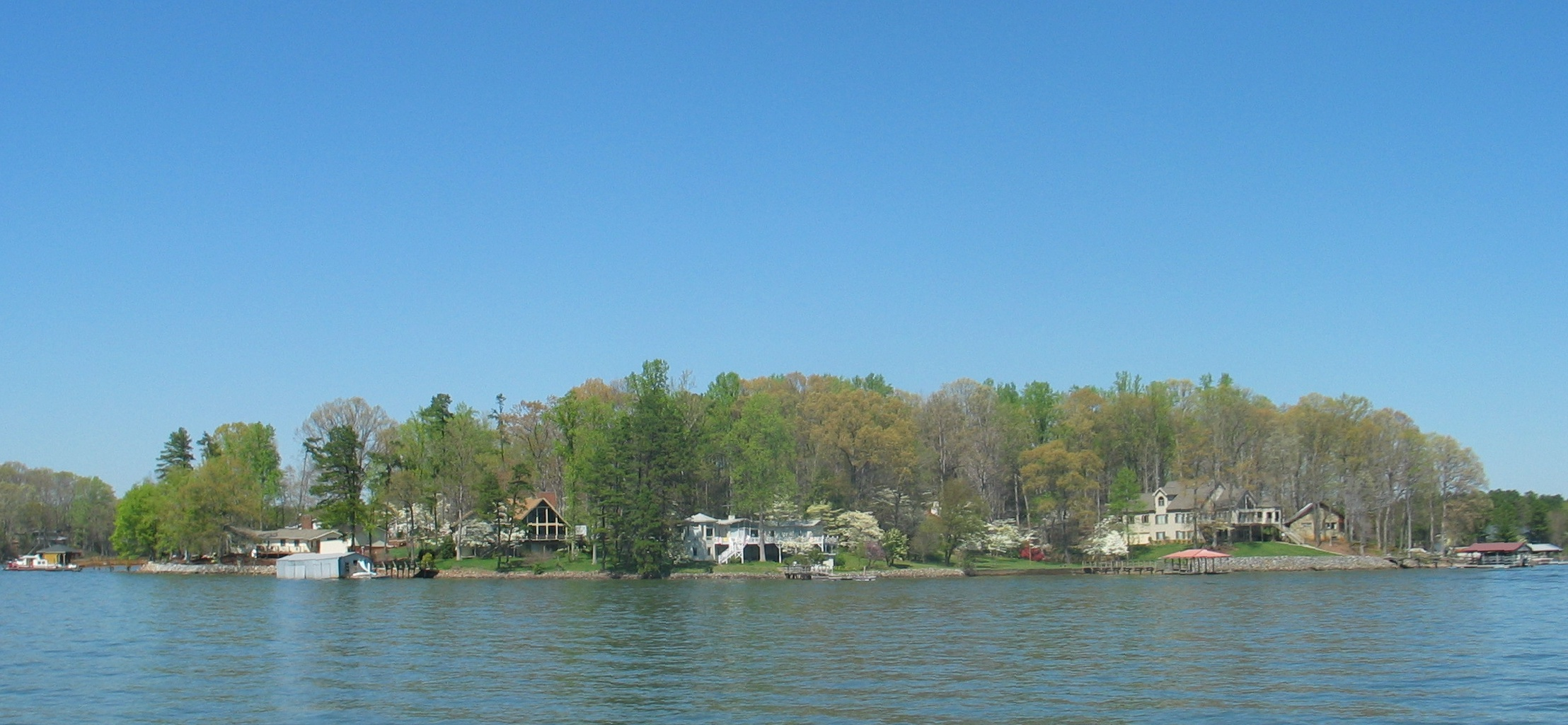 This image shows a coastline as it is usually found at Lake Norman